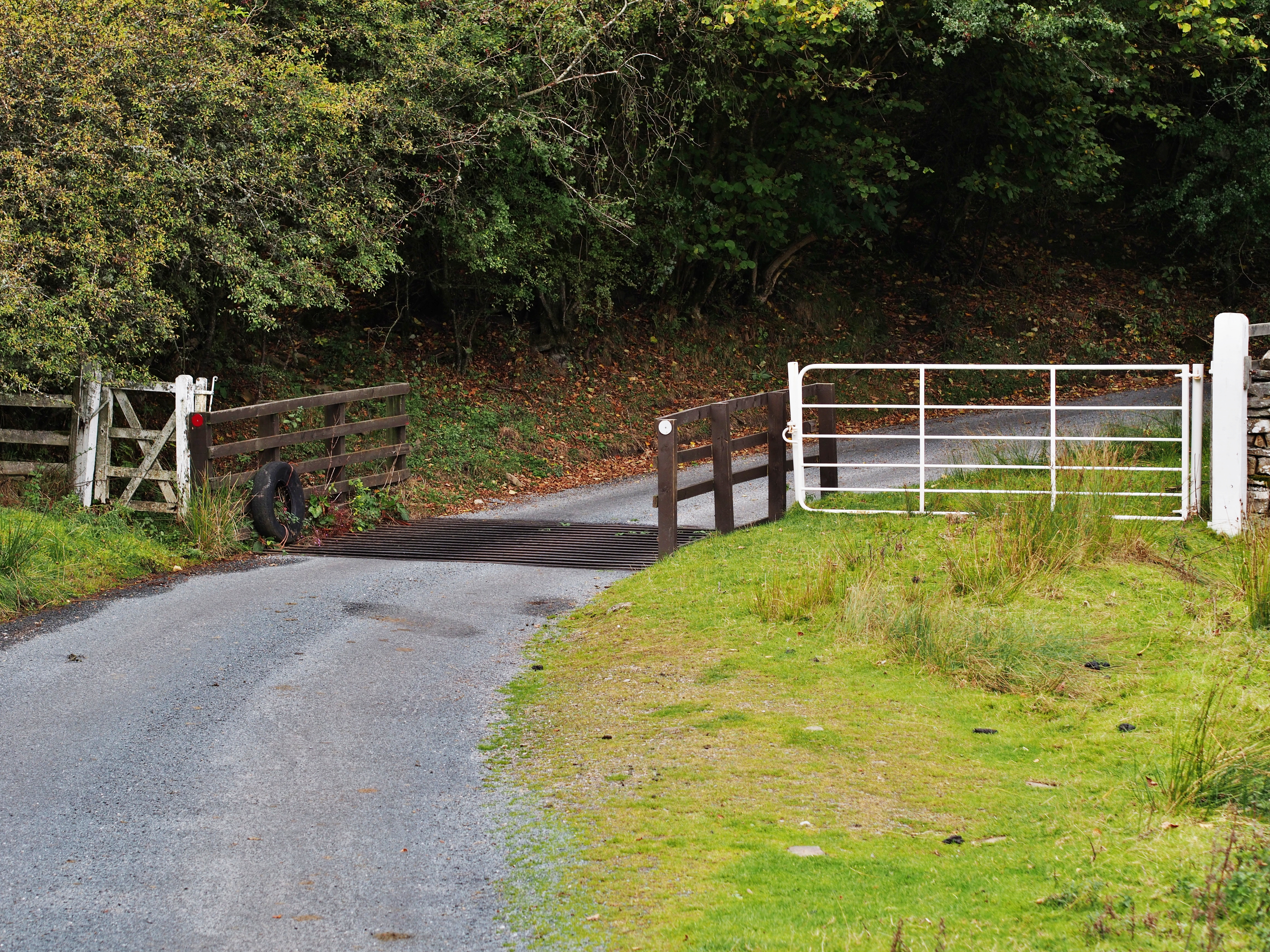 Cattle grid with gates for pedestrians and horses